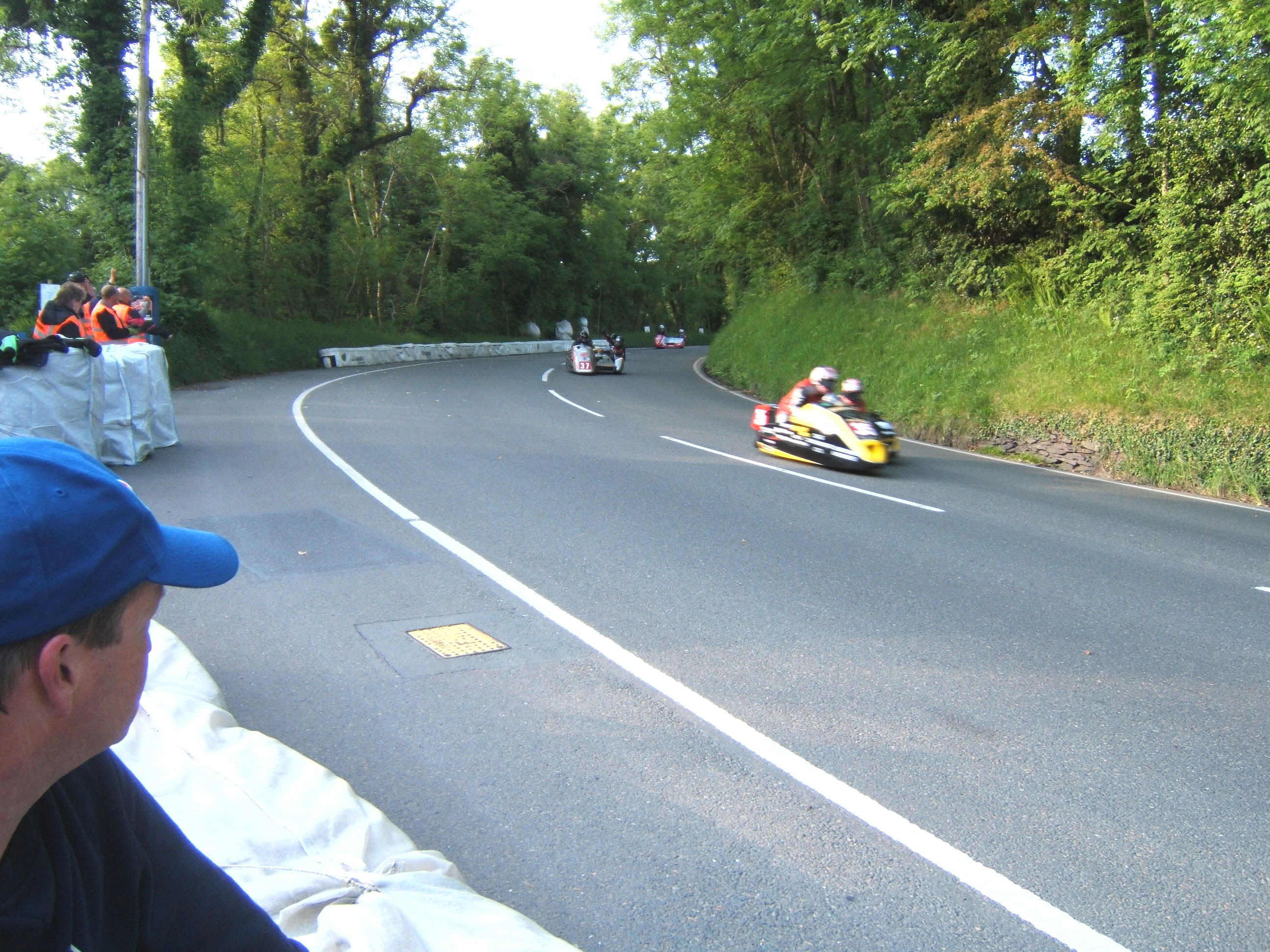 Sarah's Cottage, view uphill at TT races in 2009 showing sidecars returning to Paddock in wrong direction after a Red Flag race stoppage caused by a competitor crash